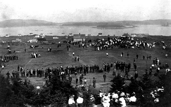 Hillside view of village picnic at Back Bay, early 1900s. Provincial Archives of New Brunswick number P128-186.